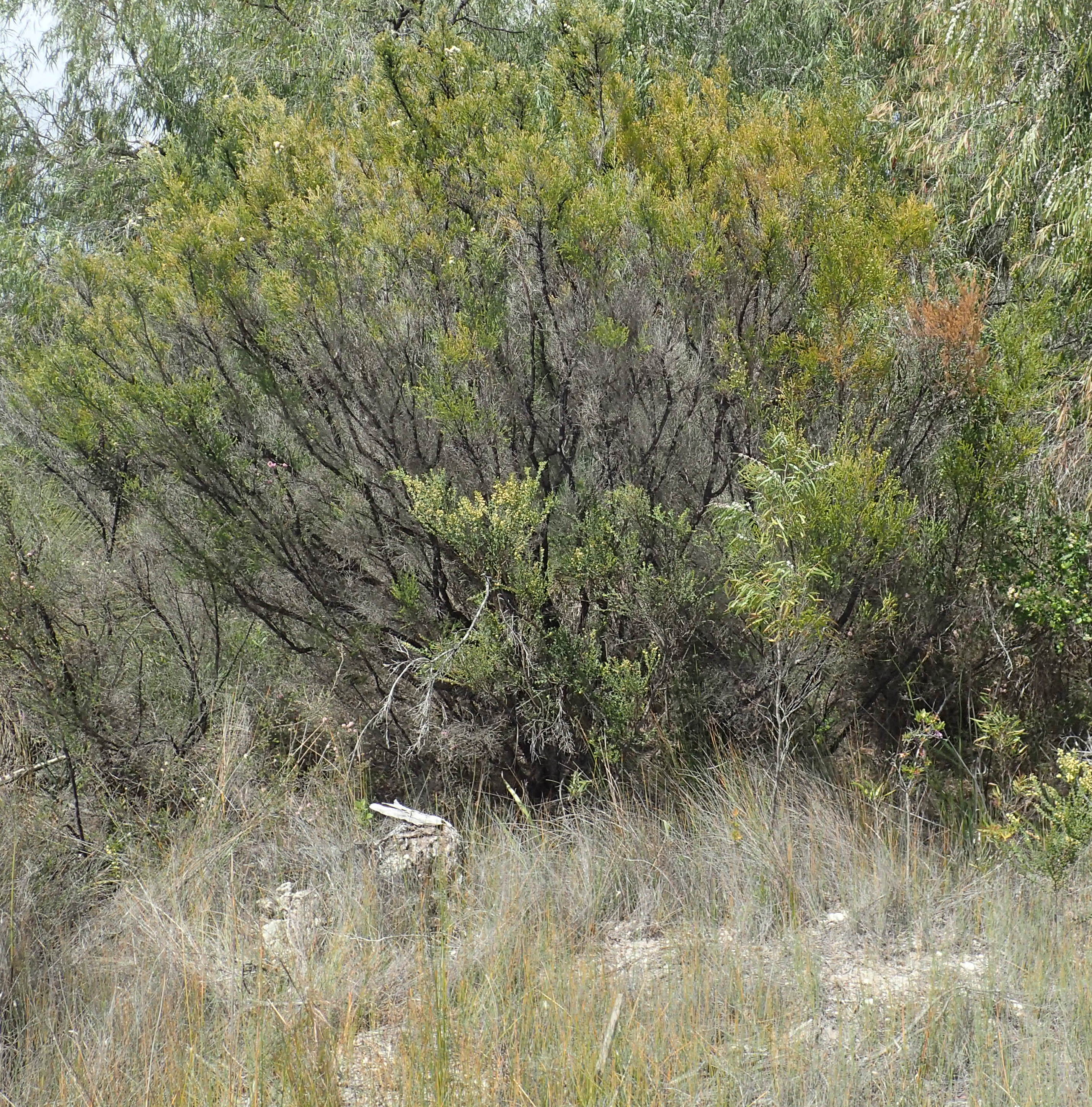 Kunzea spathulata growing near Augusta, W.A.